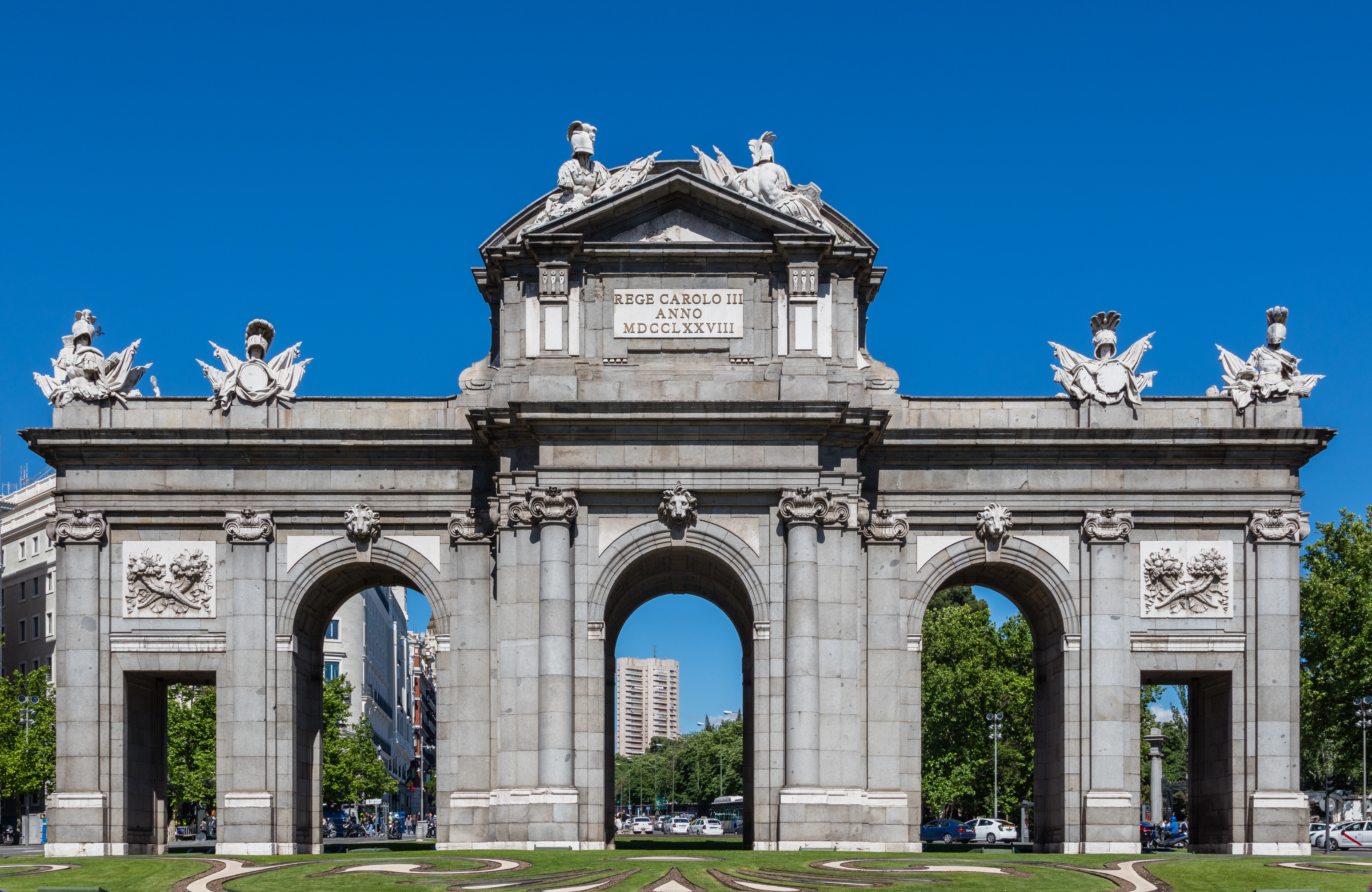 Alcalá Gate, Madrid, Spain